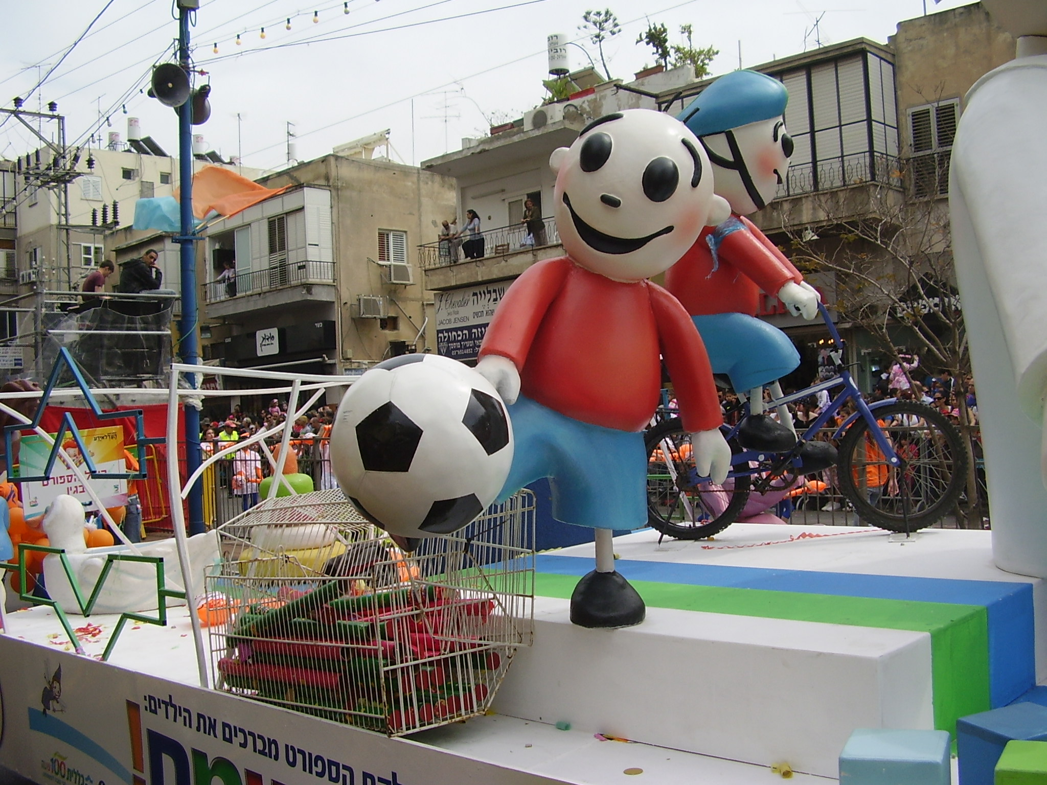 purim festival in holon 2011